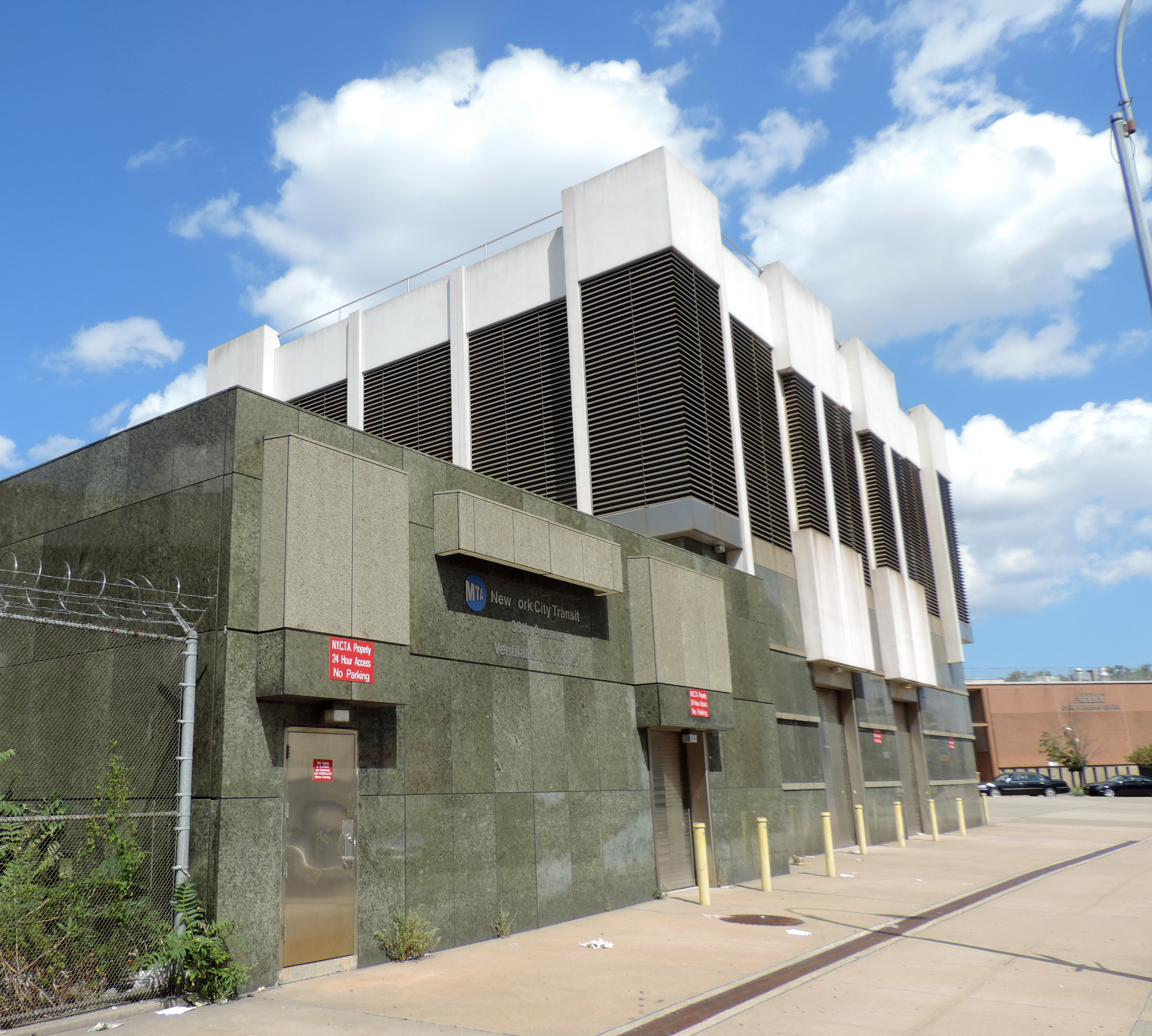 Looking northeast along Northern Boulevard at vent tower on a partly cloudy late morning.